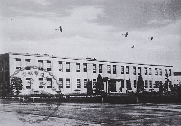 Headquarters of Yokosuka Navy Air Corps in 1932